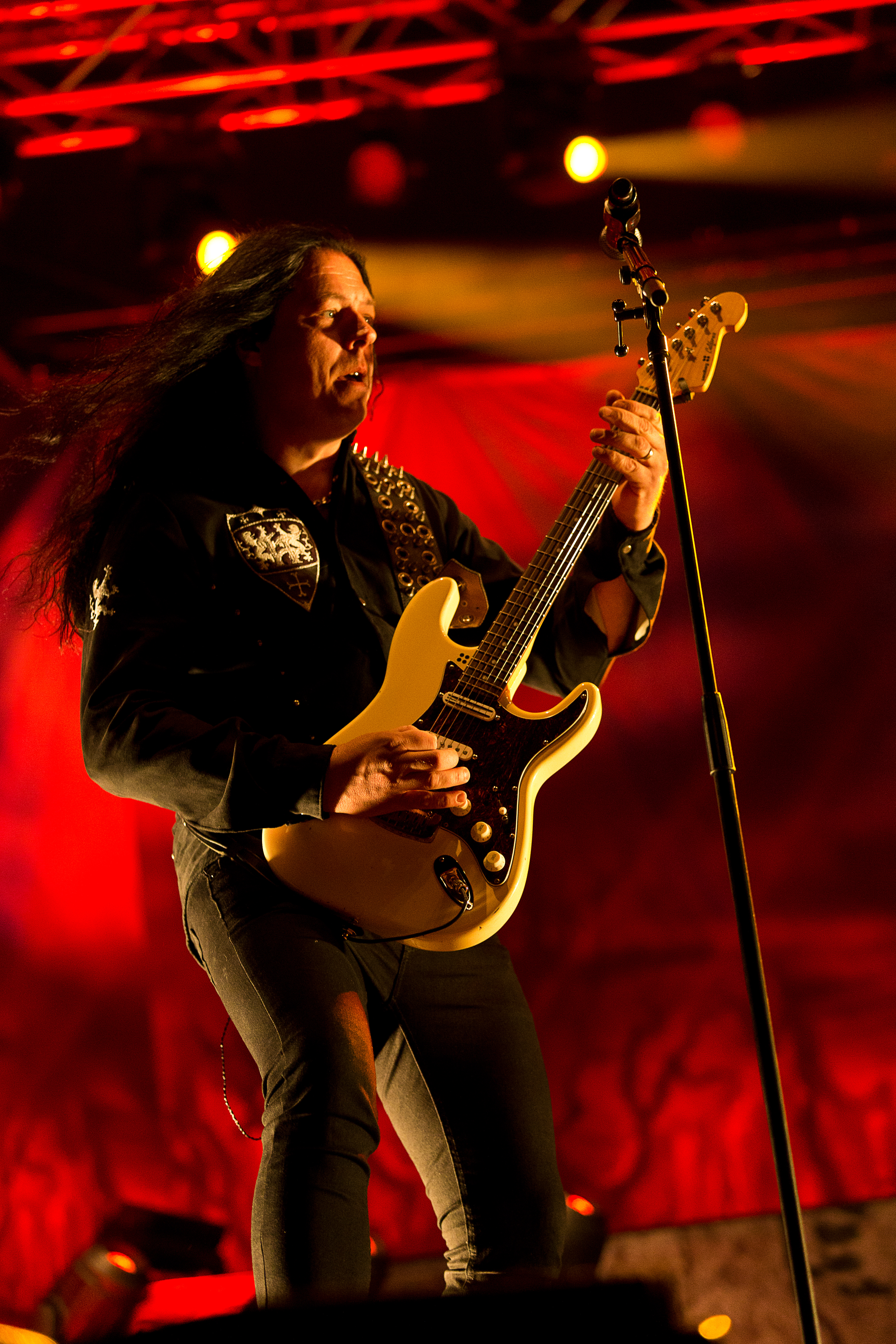 The Swedish power metal band Hammerfall at the Rockharz Open Air 2015 in Ballenstedt/Germany.